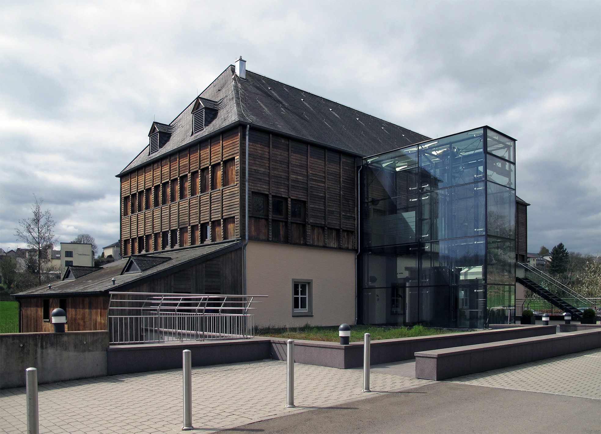 The Hennesbau in Niederfeulen, rue de la Fail